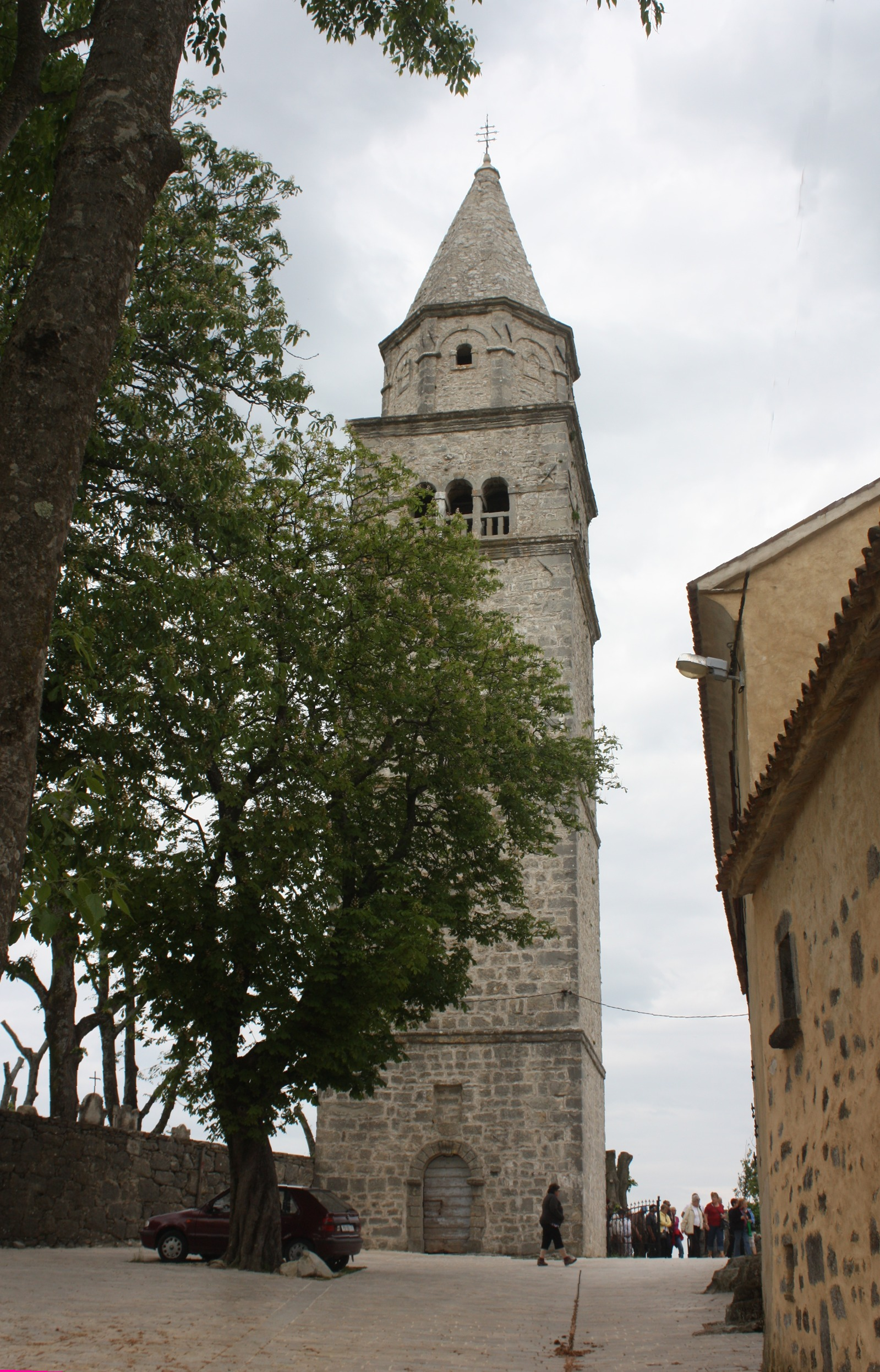 Gračišće, the tower of the St. Vitus Church